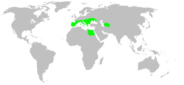 Synaphridae habitat distribution, drawn after Platnick: World Spider Catalog 7.0. This is not a precise rendering of the distribution! If you have better information, please replace this map, or send me the info, and i will redraw it.